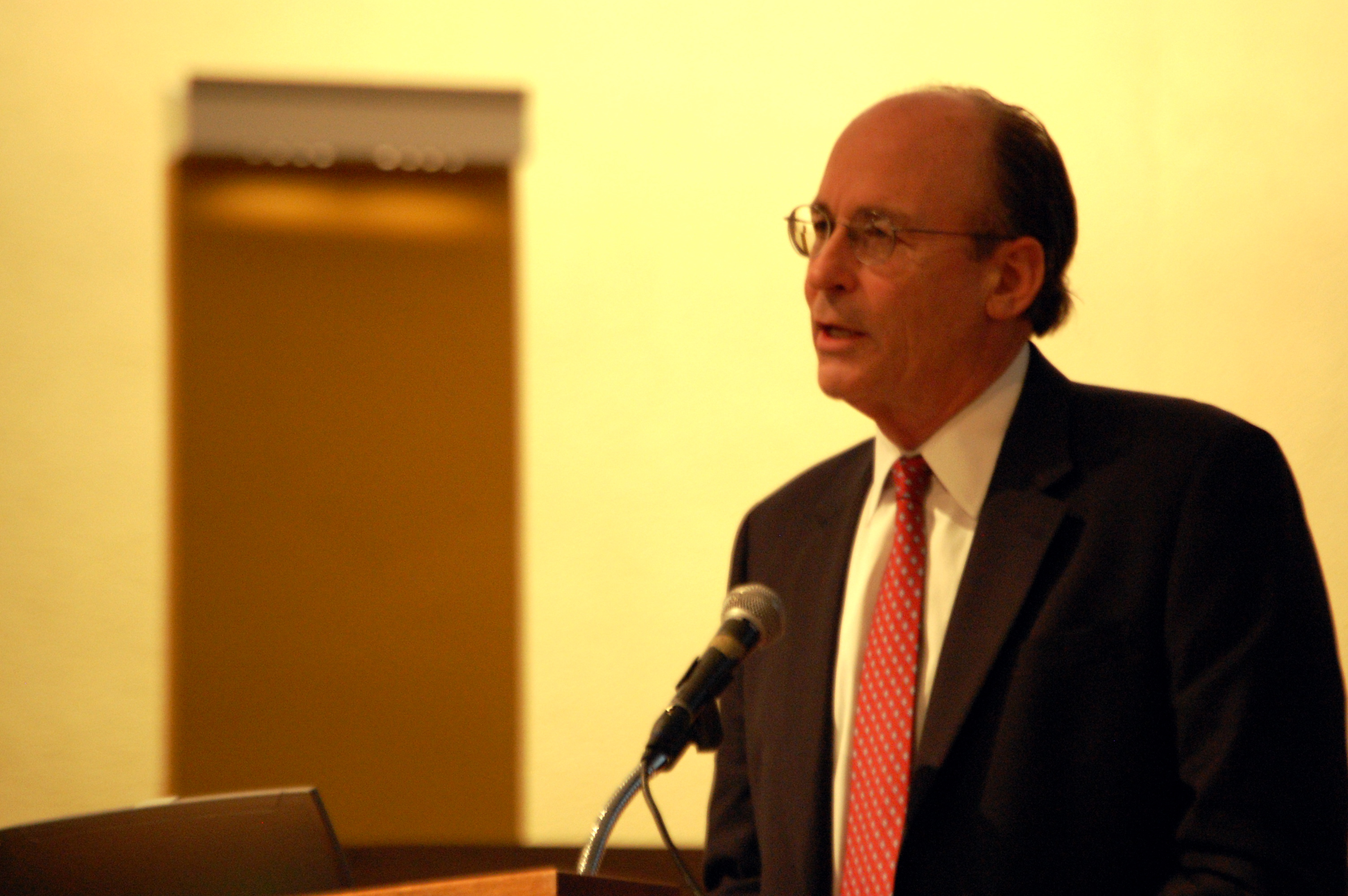 An image of American Pulitzer Prize-winning author Tracy Kidder at the College of Wooster, 2009.